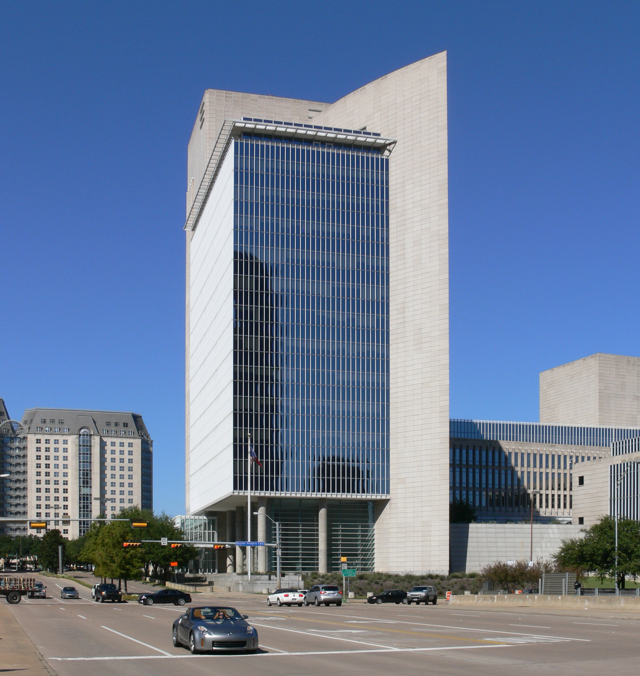 Federal Reserve Bank of Dallas, Pearl Street (Uptown), Dallas, Texas